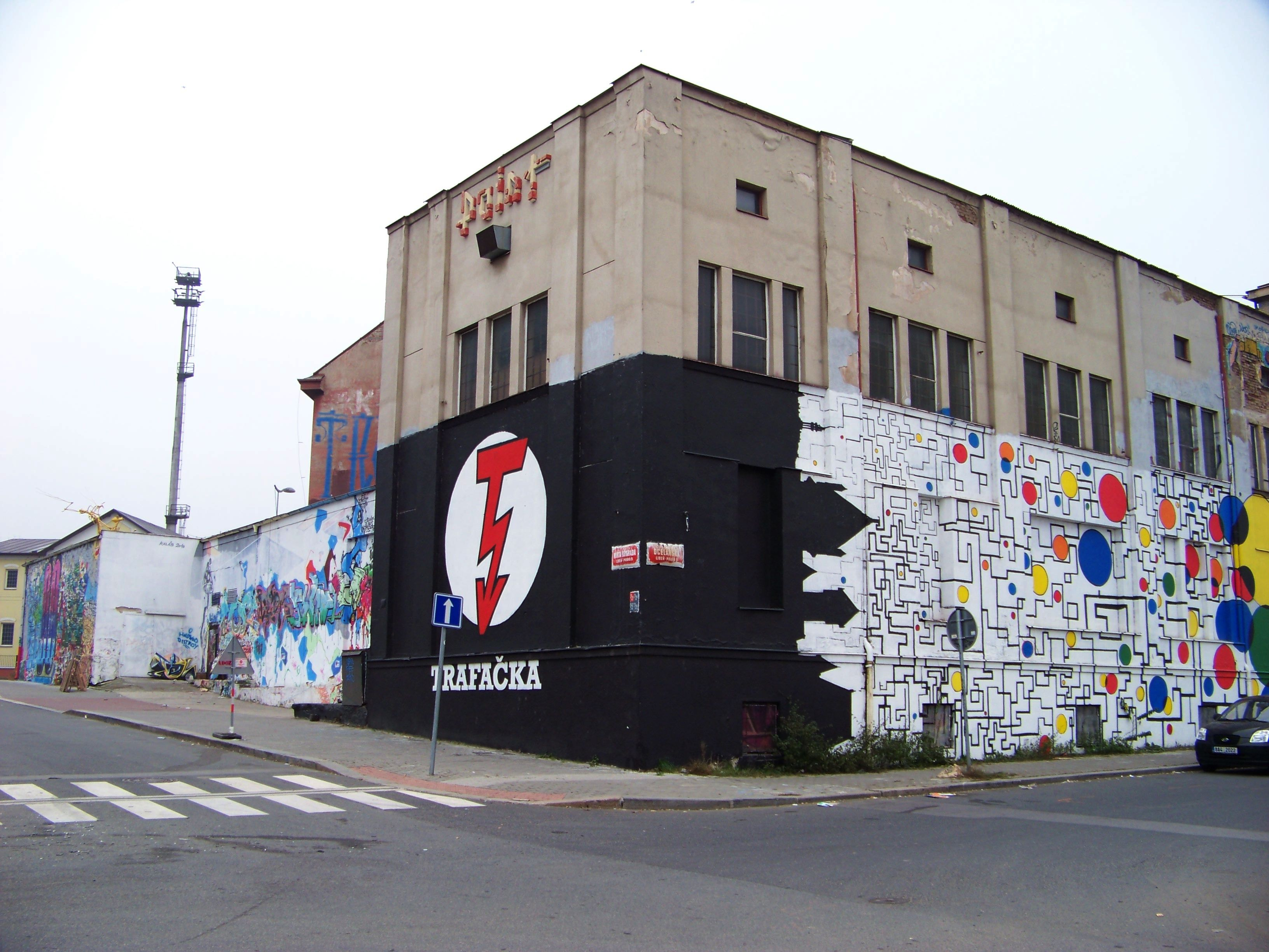 Prague-Libeň, the Czech Republic. Kurta Konráda – Ocelářská 213/2, Trafačka gallery.